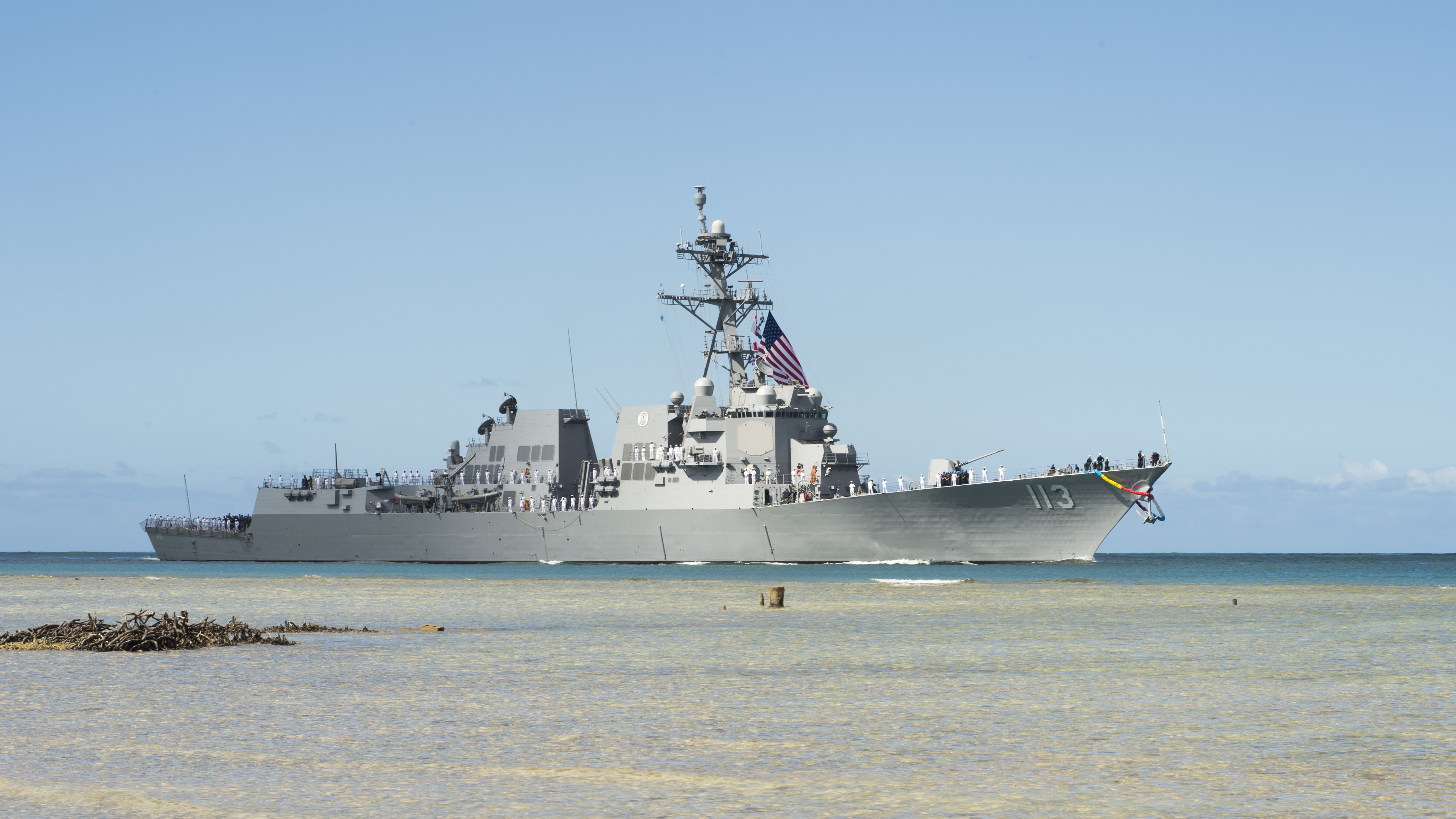 The U.S. Navy Arleigh Burke-class guided-missile destroyer USS John Finn (DDG-113) arrives at Joint Base Pearl Harbor-Hickam, Hawaii (USA), on 10 July 2017, in preparation for its commissioning ceremony. DDG-113 was named in honour of Lt. John William Finn, who as a chief aviation ordnanceman was the first member of the U.S. armed services to earn the Medal of Honor during World War II for heroism during the attack on Pearl Harbor.